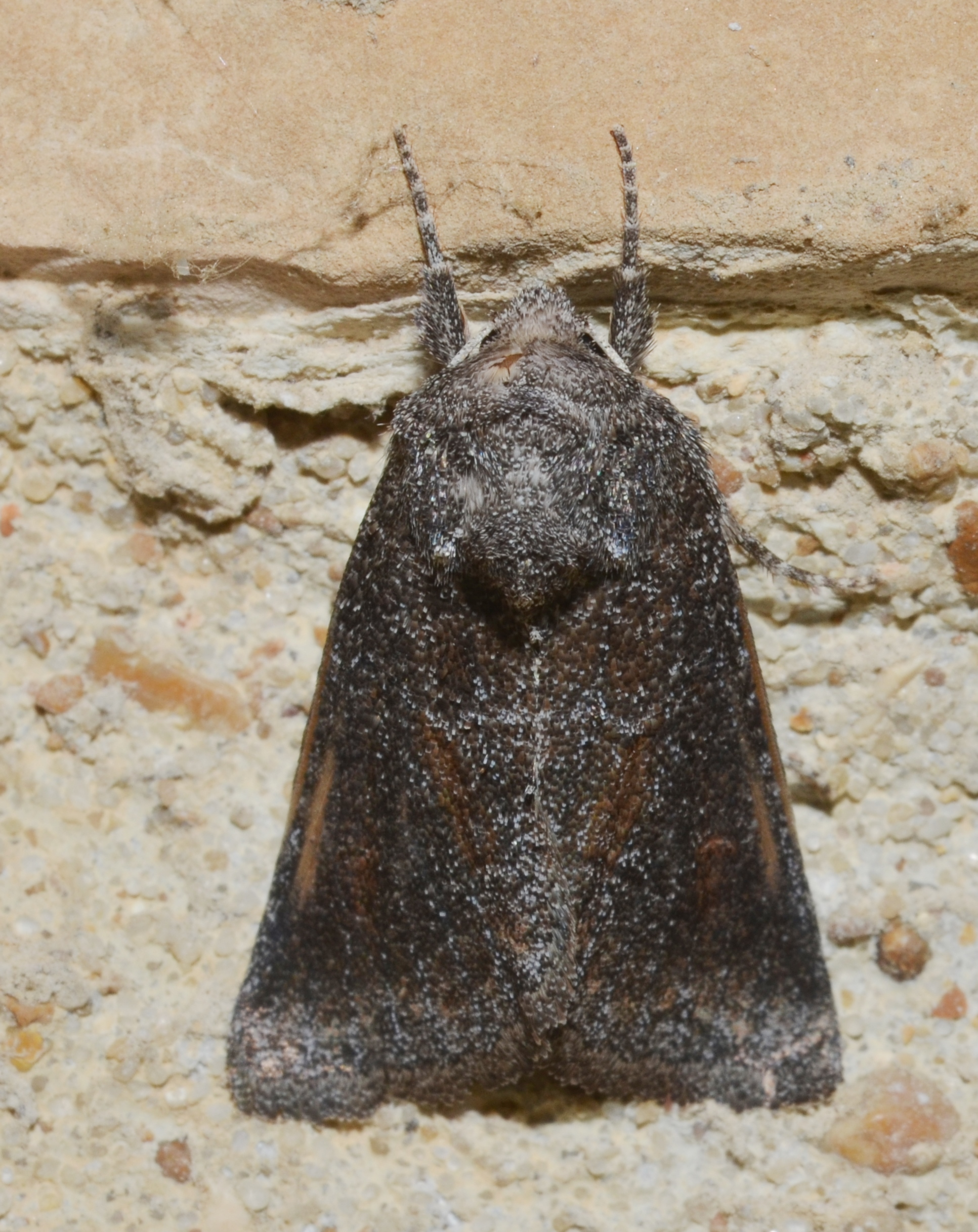 Shaw Nature Reserve Gray Summit MO 9/18/15